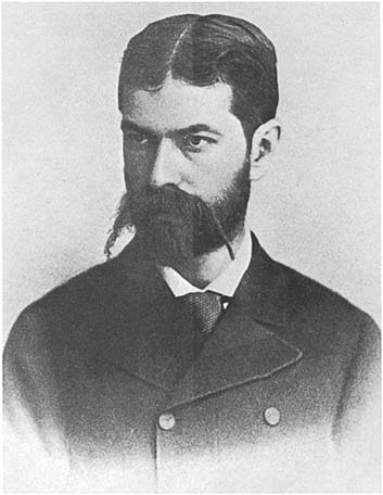 P.M.Lessar